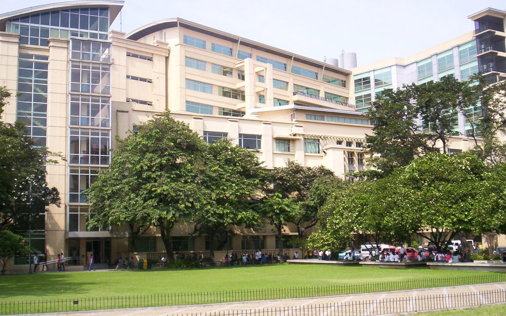 Technology Building in FEU